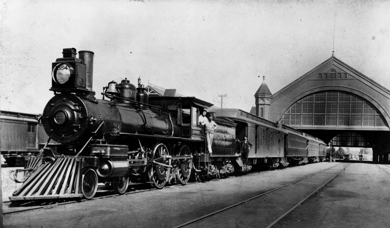 Southern Pacific steam engine no. 1364 heads the train at the Arcade Station at Alameda between 4th and 5th St.